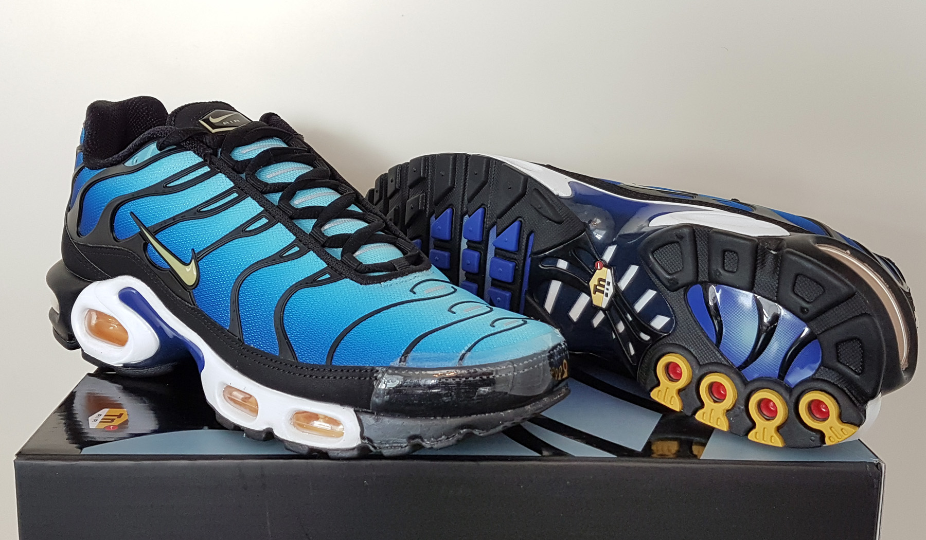 Nike Air Max Plus in the original Hyper Blue colourway